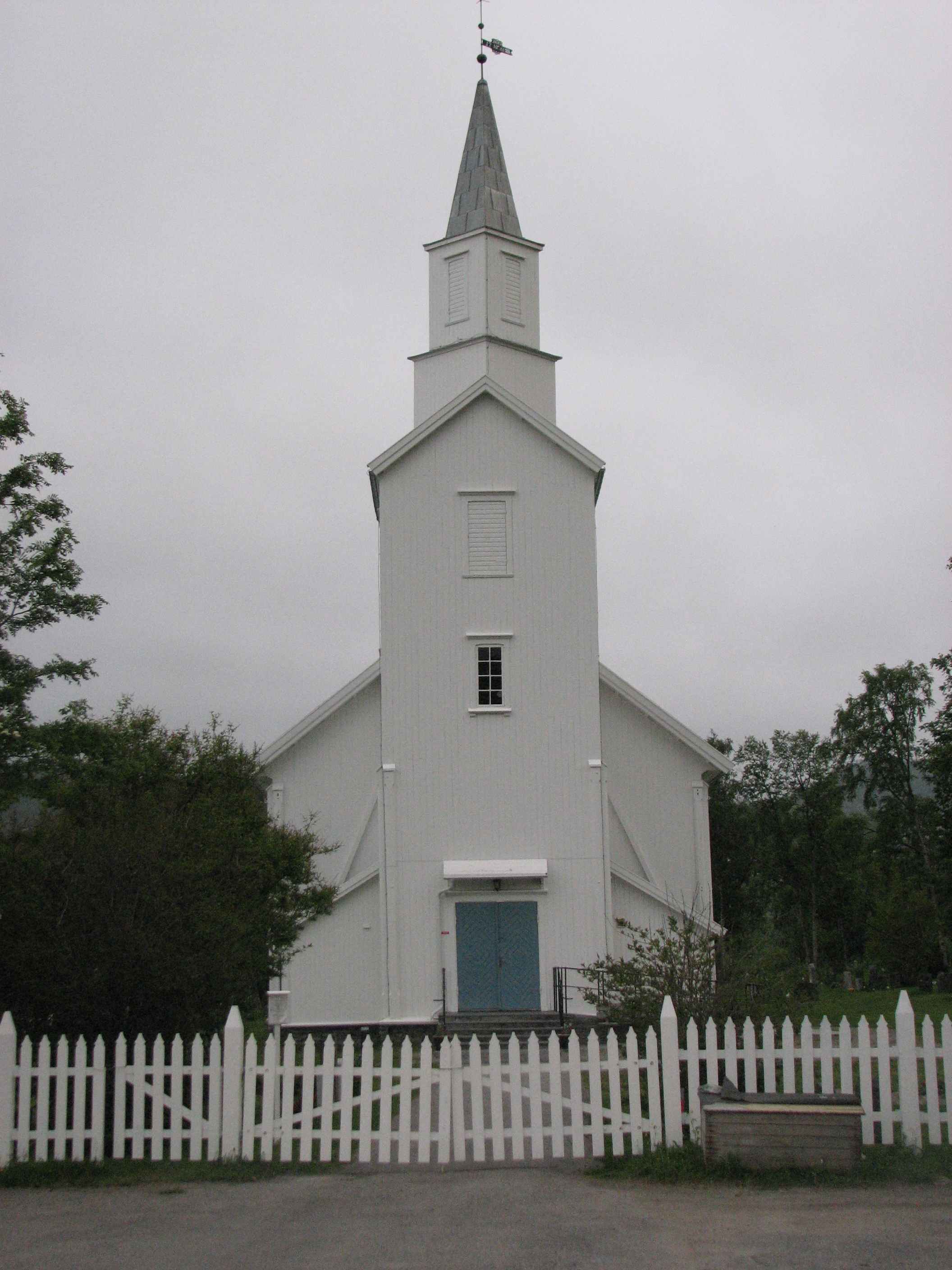 Talvik church, Alta municipality, Norway